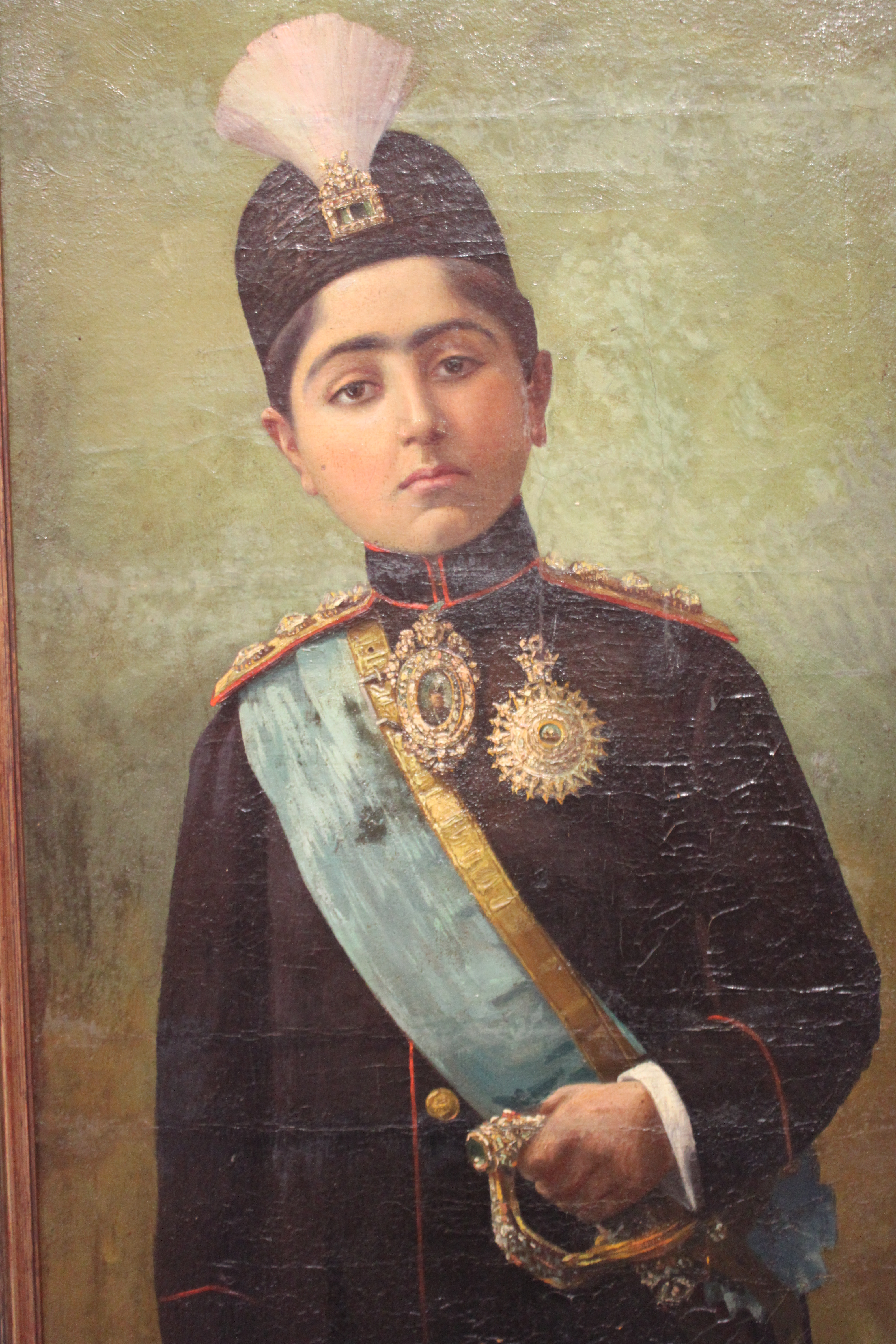 Portrait of Ahmad Shah Qajar - Iran - 1910 - Mir Seyyed Hossein Arjangi (1881-1943), also known as Mir Musavvir - Oil on canvas - Private collection in Paris